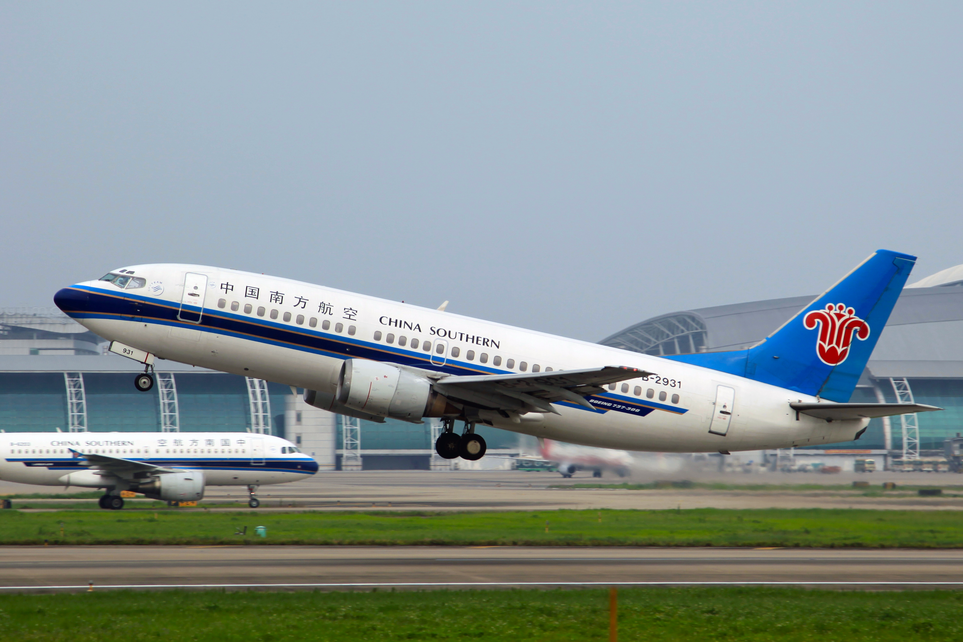 China Southern Airlines Boeing 737-31L B-2931 @ Guangzhou Baiyun International Airport